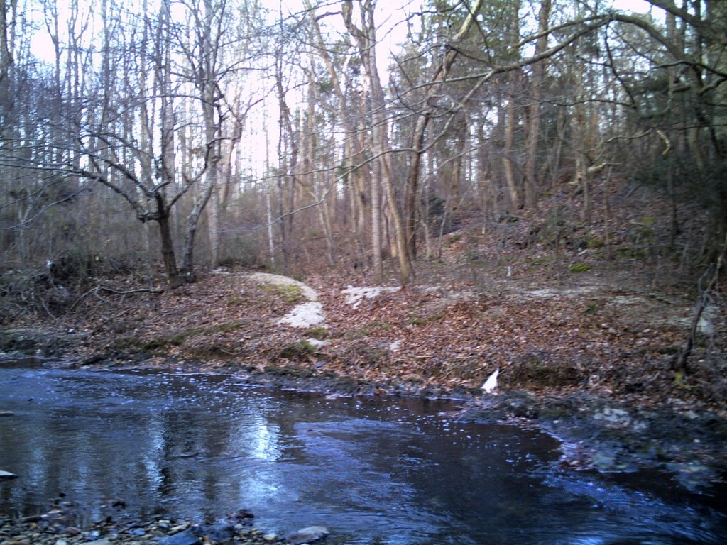 Remnants of Water race for furnace bellows, located across from furnace locations